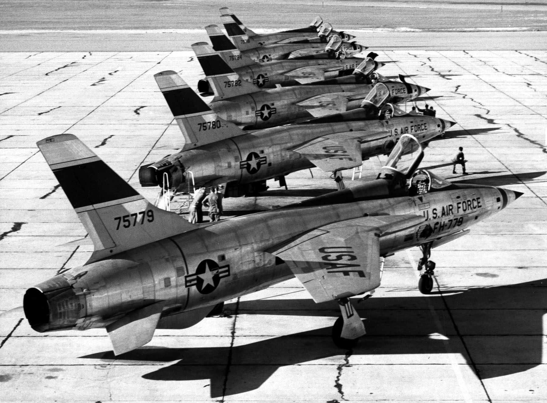 Six F-105B-10-REs (6 of 9 block 10 aircraft built) parked on the ramp. Aircraft are (nearest to farthest) S/N 57-5779, -5780, -5782, -5784, -5781, -5778.